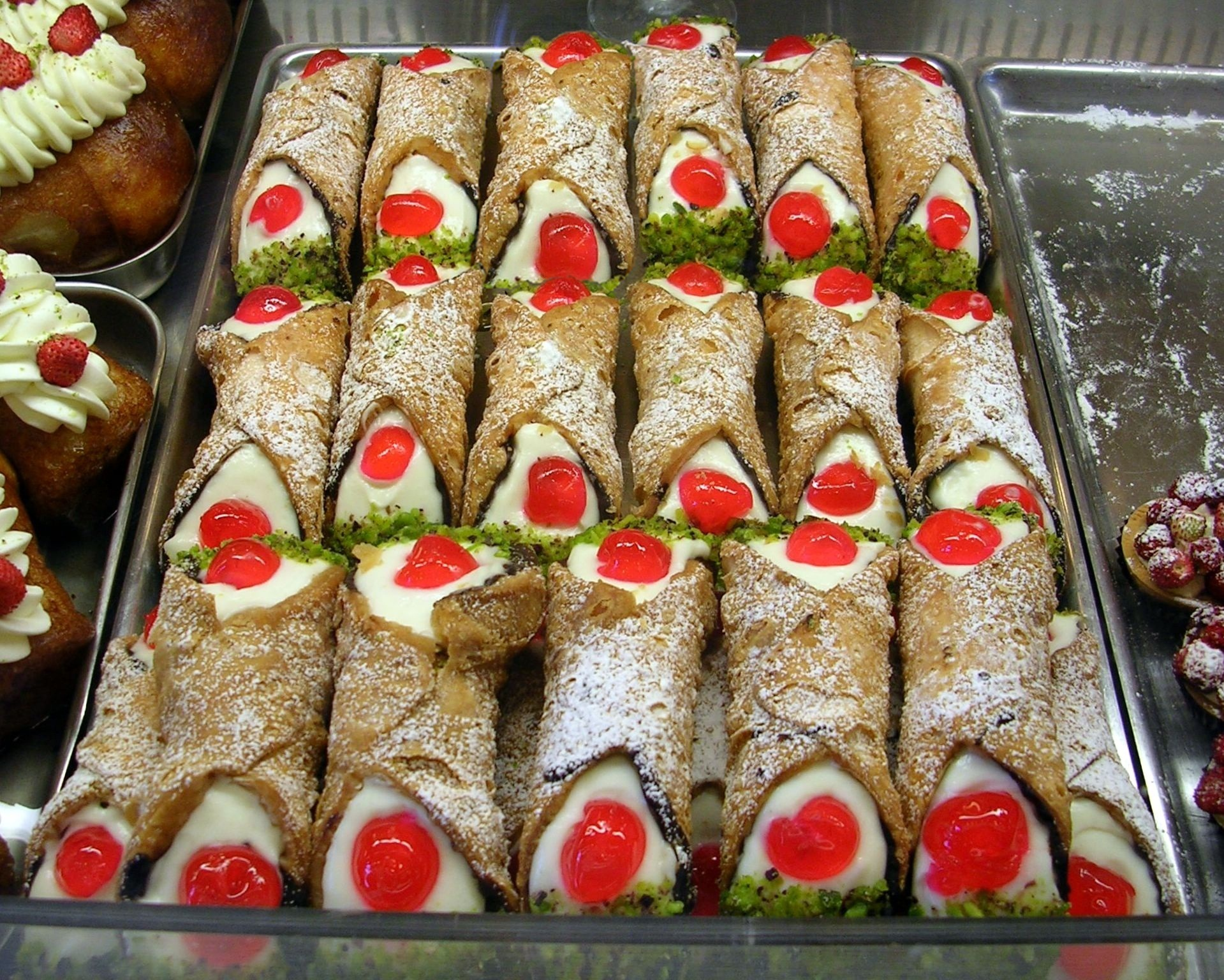 Cannoli Siciliani, a typical Sicilan sweet.